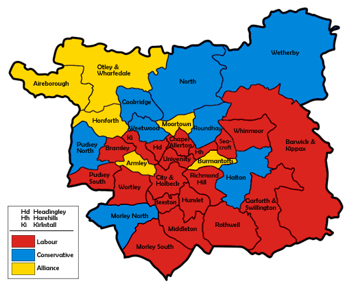 Ward map of Leeds City Council with political colouring for the 1987 election.